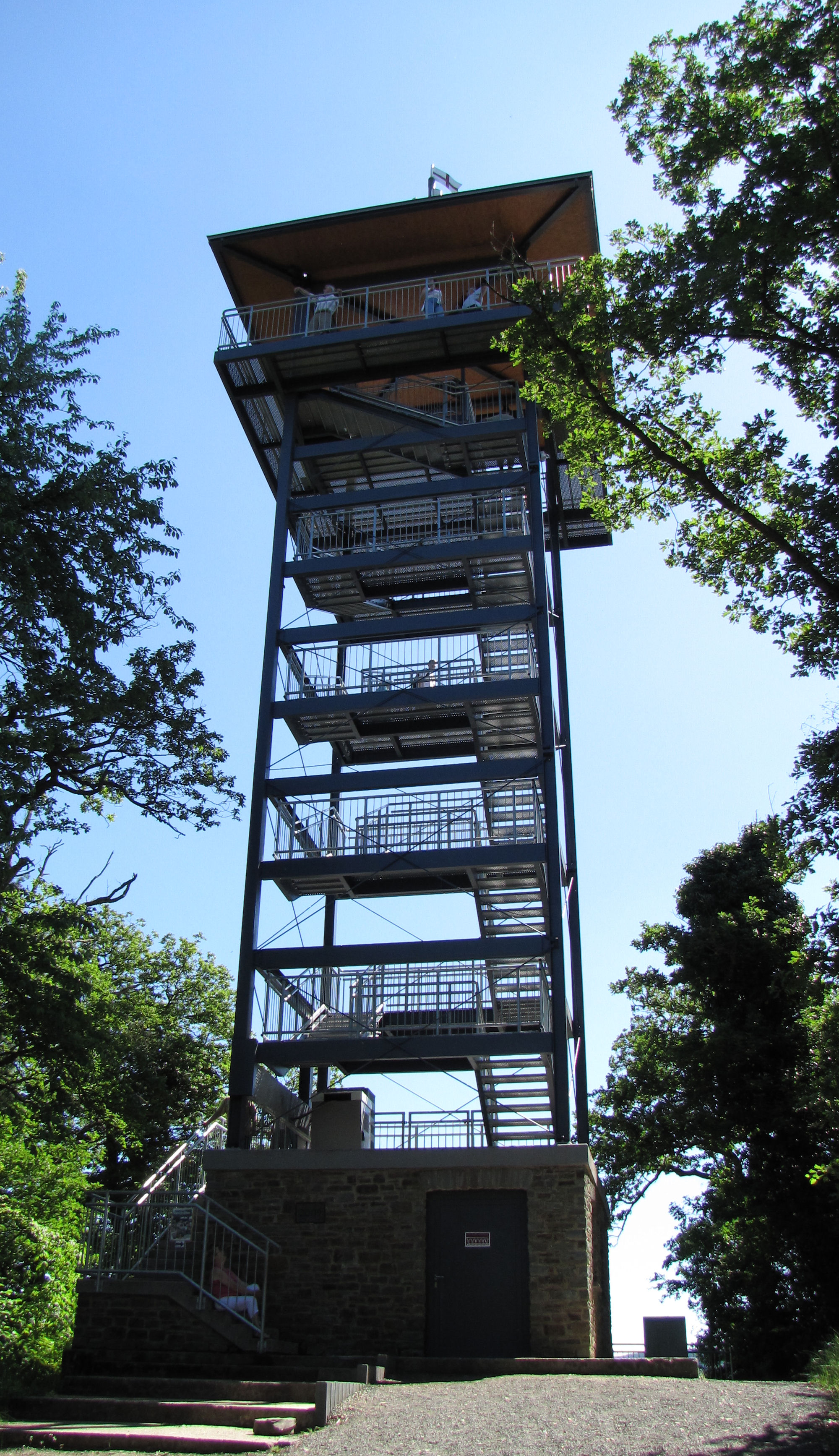 View tower at Prinzenkopf nearby Marienburg